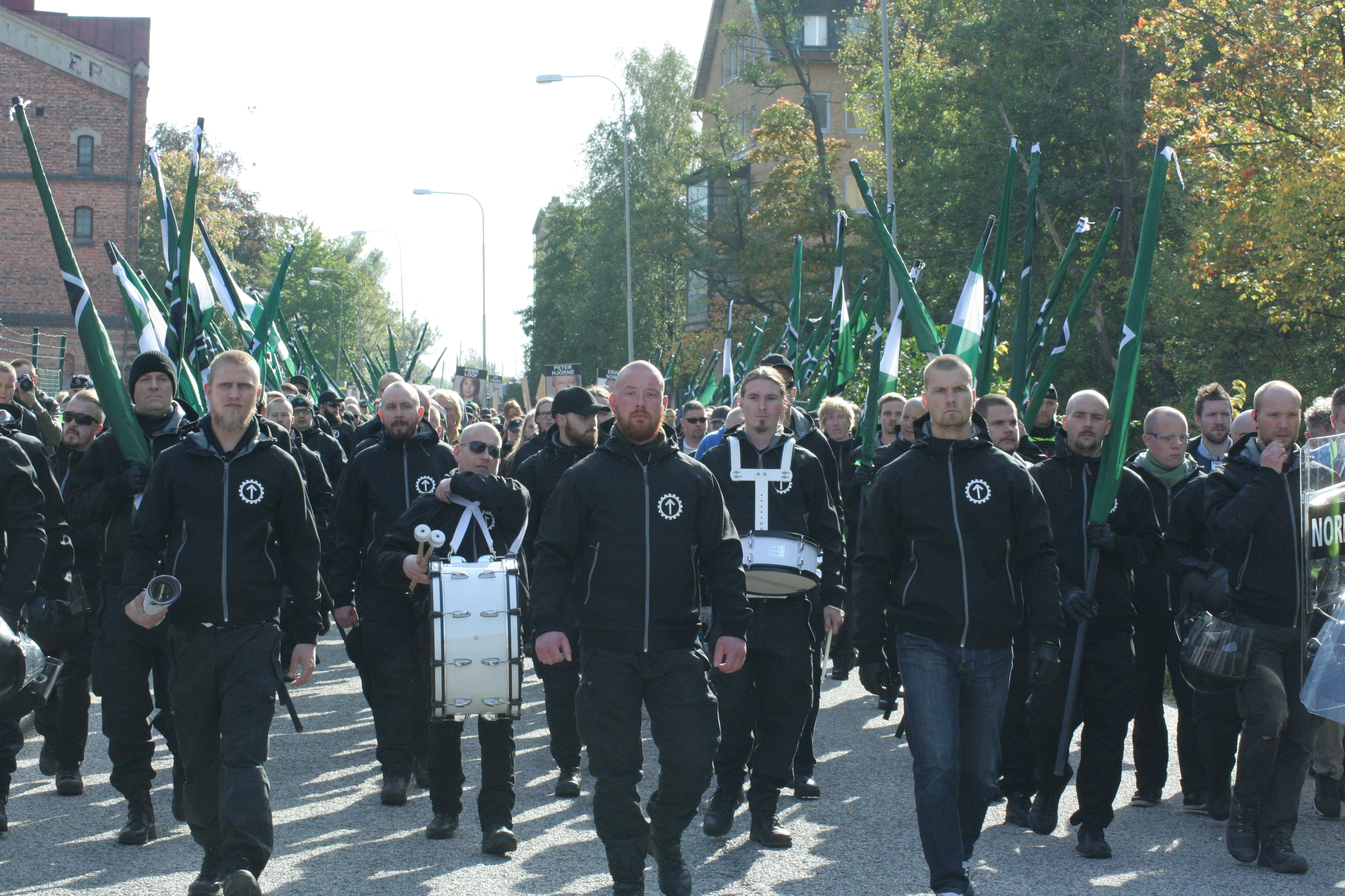 Members of the Nordic Resistance Movement demonstrate in Gothenburg, Sweden, on 30 September 2017.